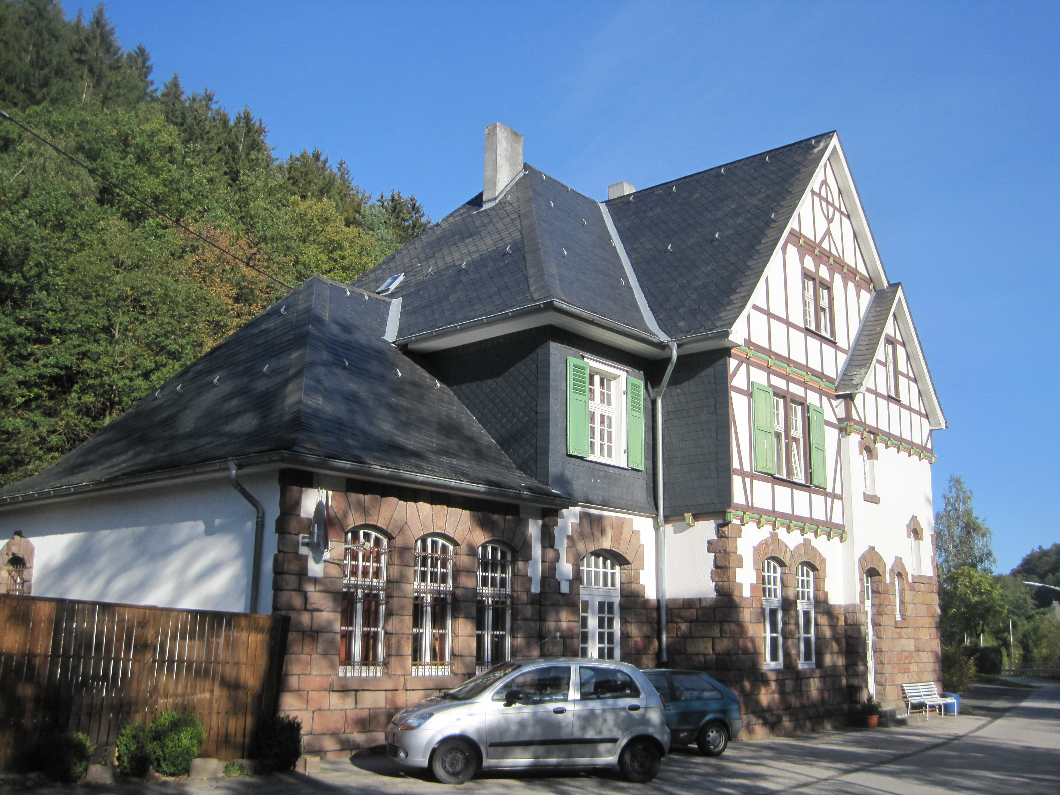 Former train station Kirchhundem-Flape, Kirchhundem, Germany